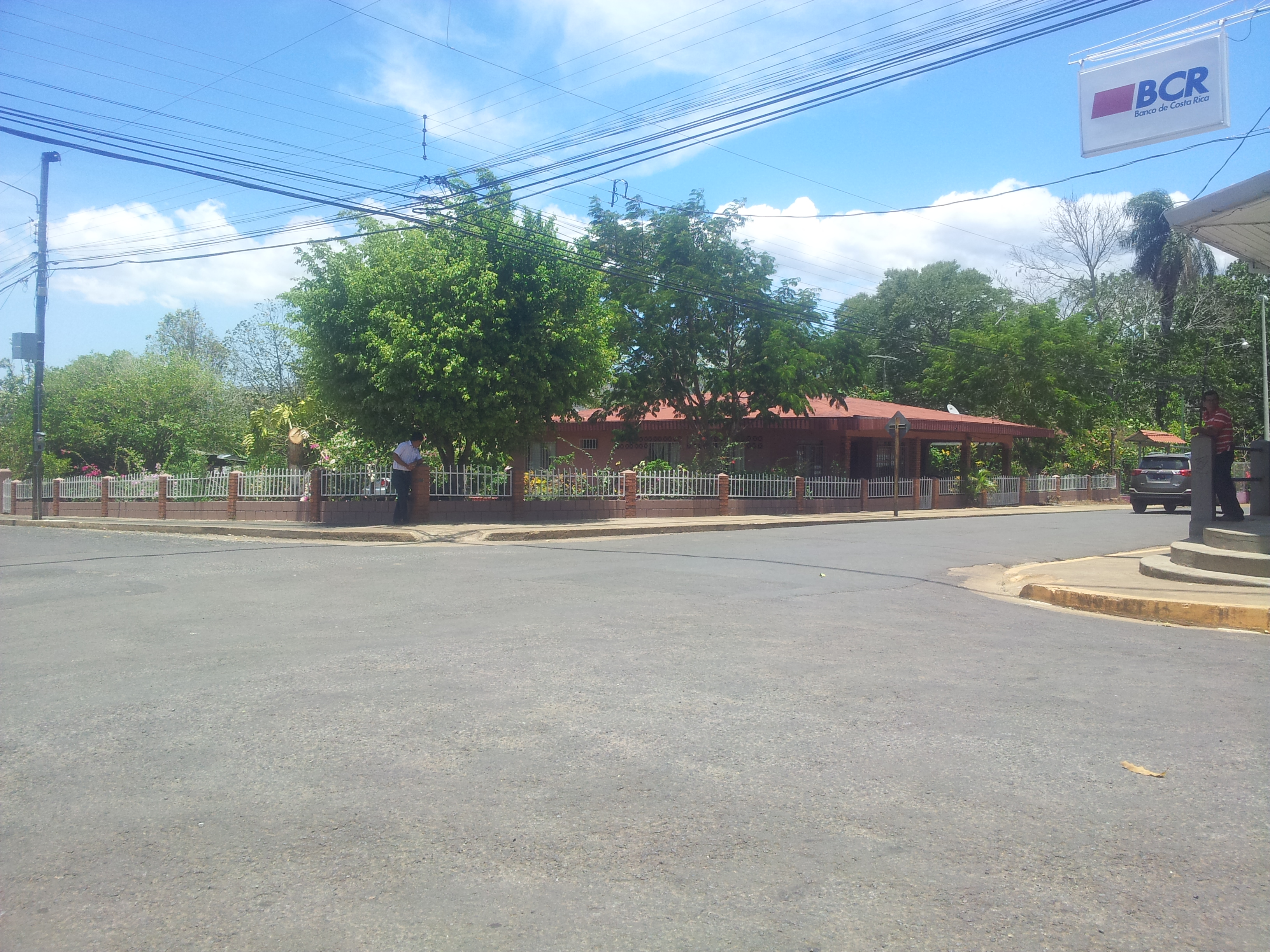 (Calles de/Streets of) San Pablo, Turrubares 012